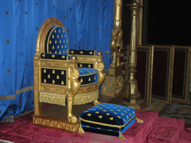 Throne of Napoleon I, 1808, situated in the throne room at the palace of Fontainebleau, France.